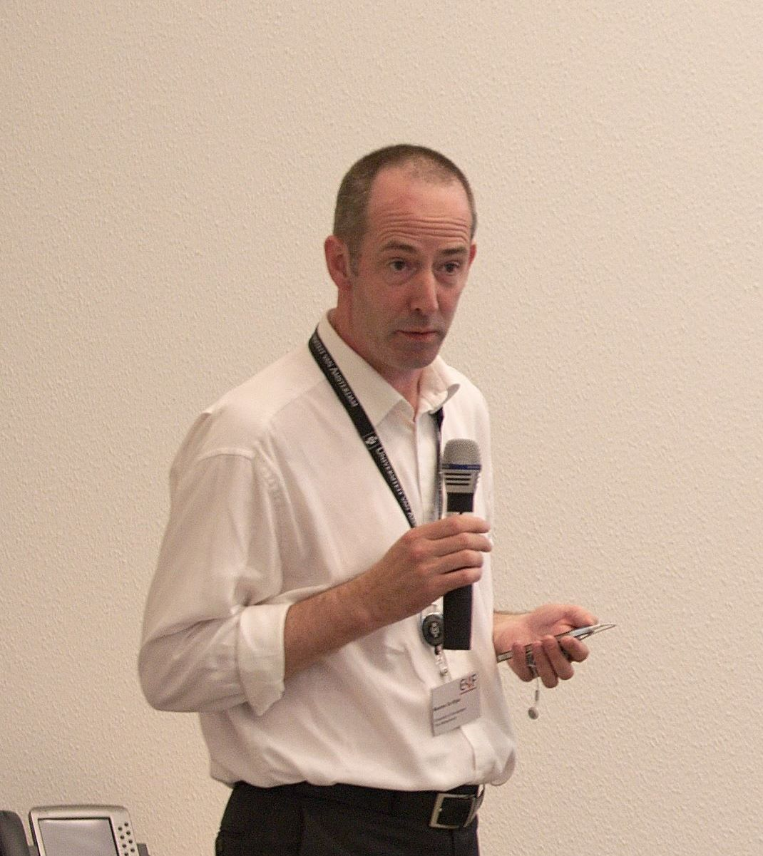 Maarten de Rijke introducing the keynote speaker of CLEF 2011, Elaine Toms.